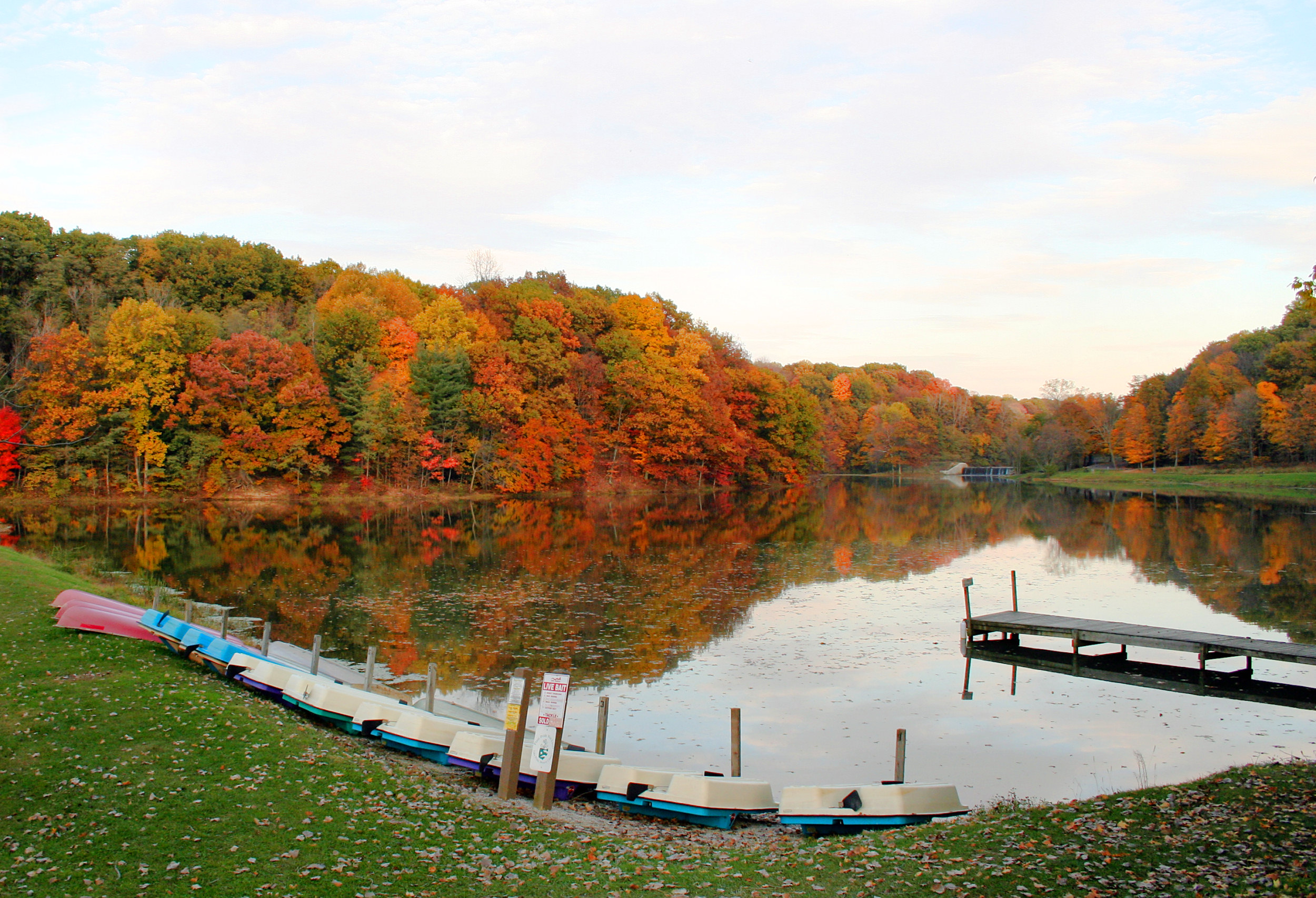 Park east of Mount Gilead, Ohio. Photo shot by Derek Jensen (Tysto), 2005-October-31